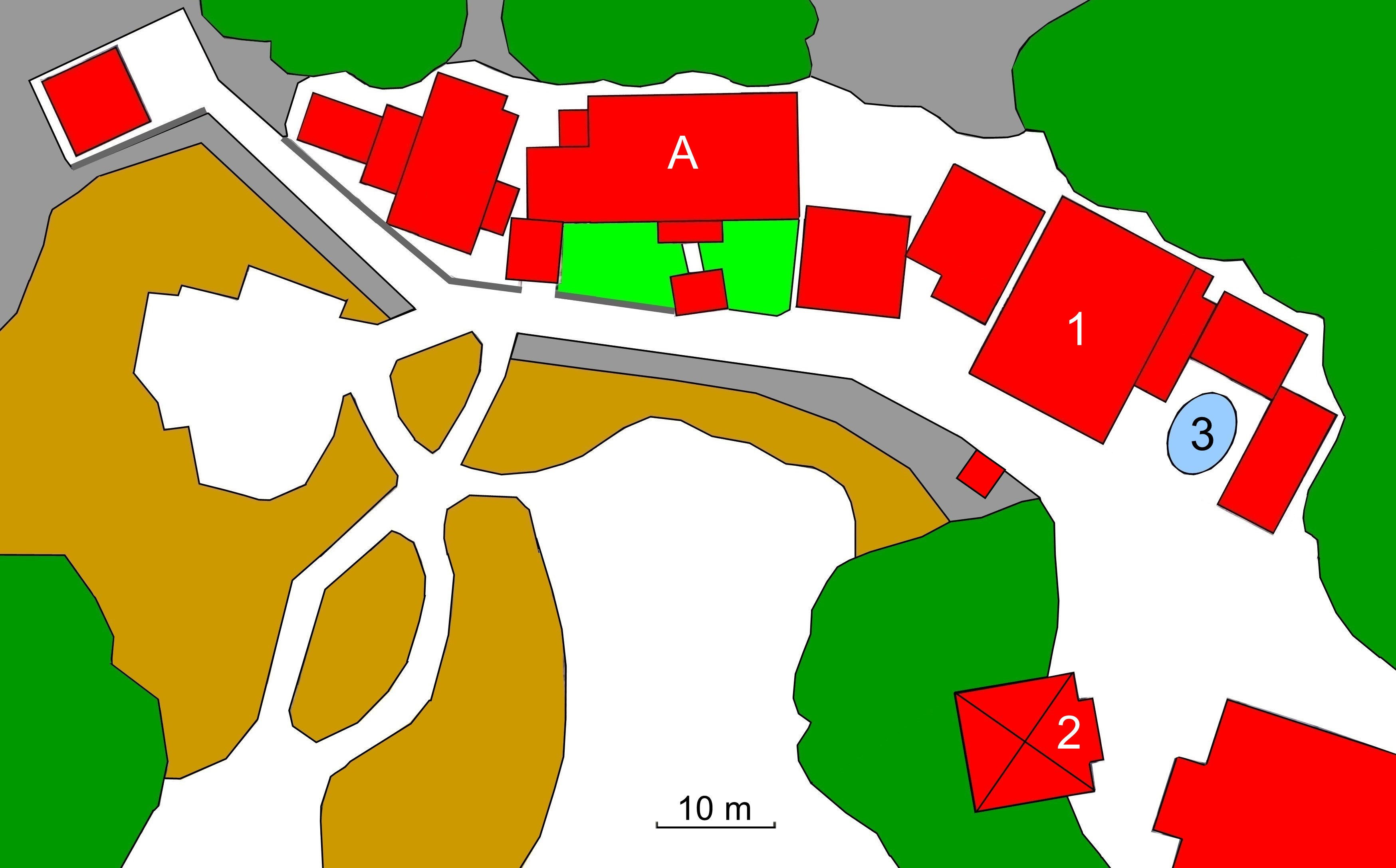 Layout of Iwama-dera at Otsu, Shiga prefecture, Japan